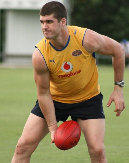 Brisbane Lions captain Jonathan Brown in pre-season training, December 2008. Giffin Park, Coorparoo, QLD, Australia.